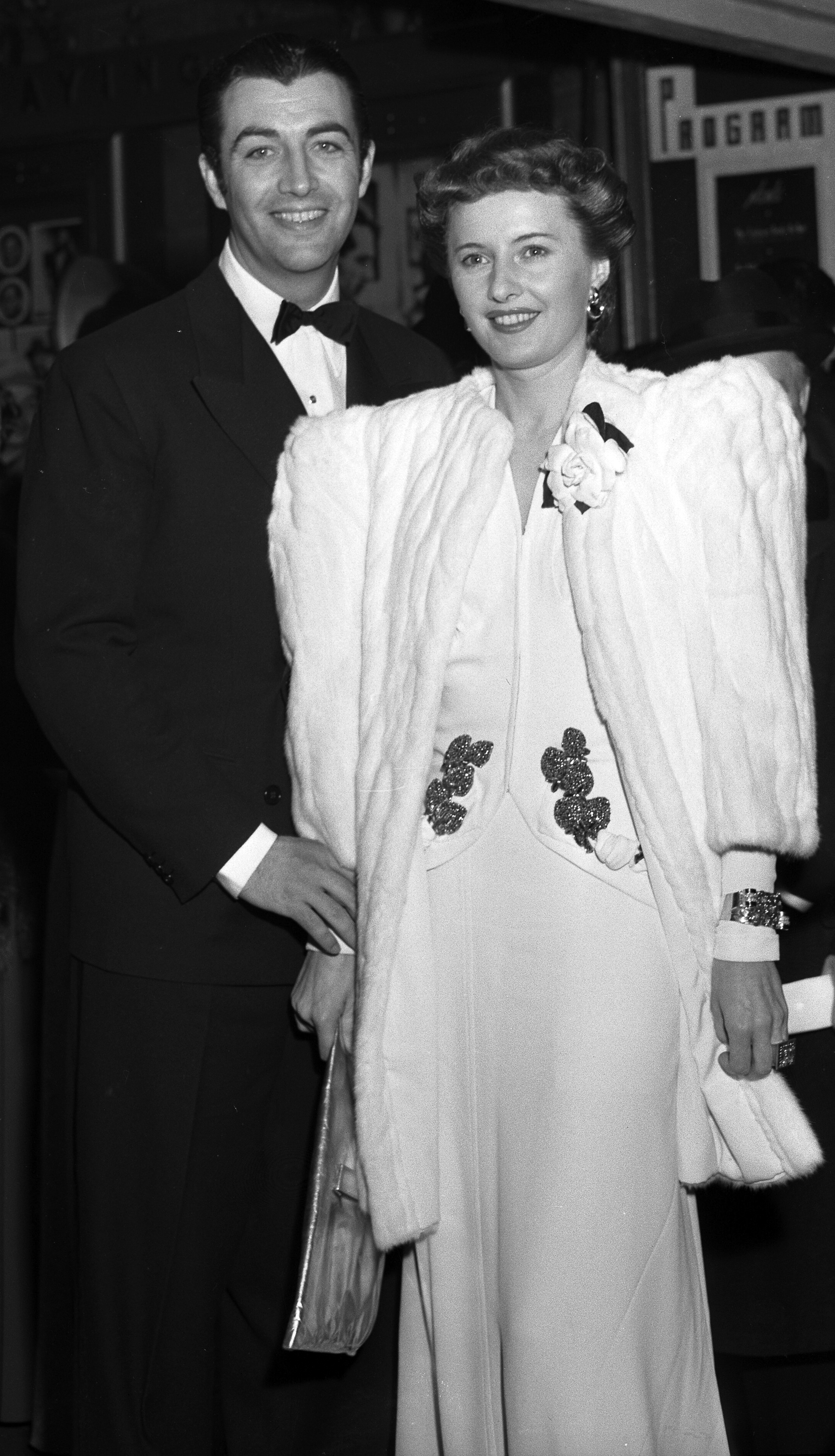 Actors Barbara Stanwyck and Robert Taylor at the film premiere of "Meet John Doe" in Los Angeles, Calif., 1941